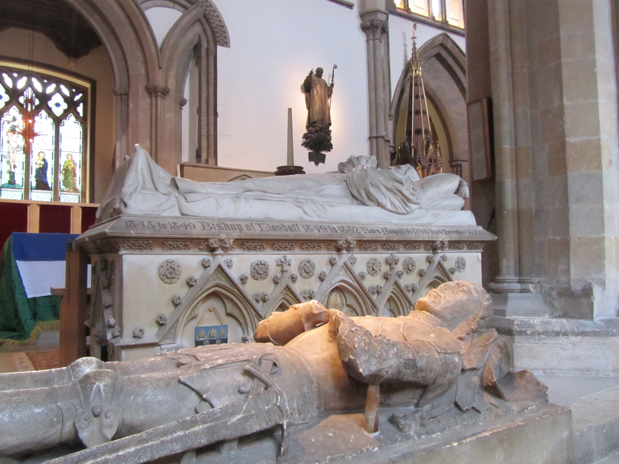 Llandafff Cathedral, interior